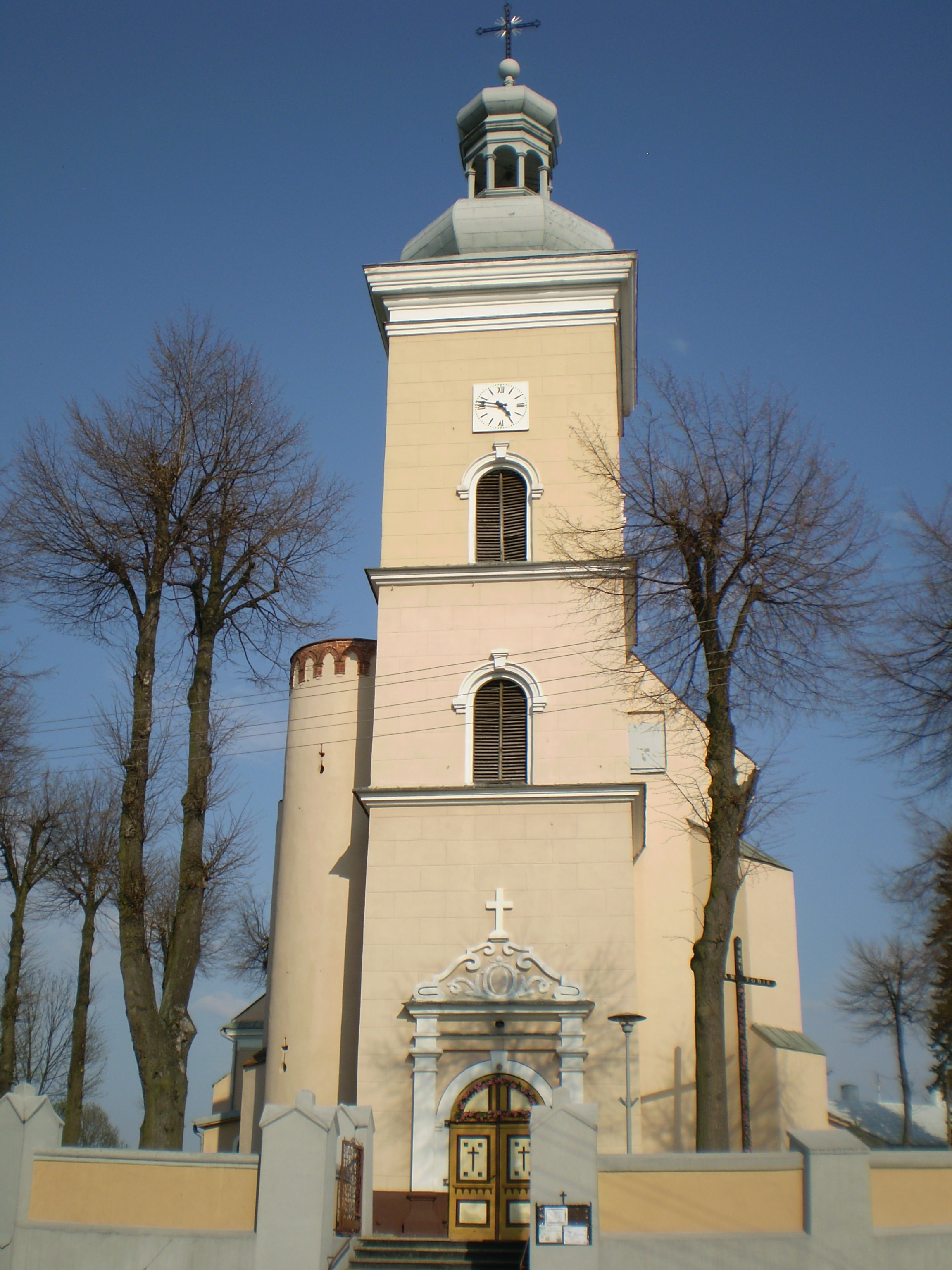 Wieża kościoła